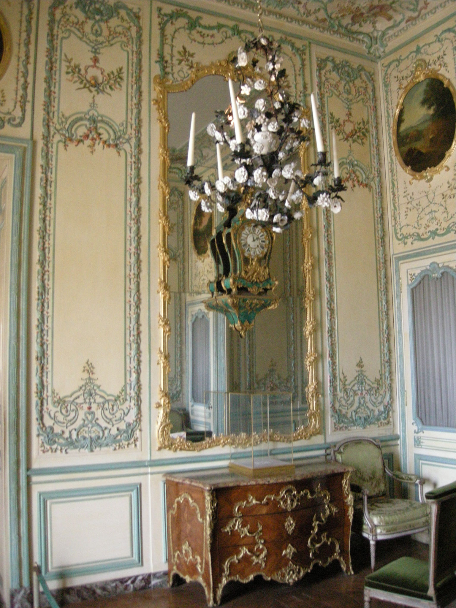 Antoine Robert Gaudreaux : commode (1745); panelling; overdoors by Jean-Baptiste Oudry. Cabinet intérieur de la Dauphine, Appartement de la Dauphine, Palace of Versailles.